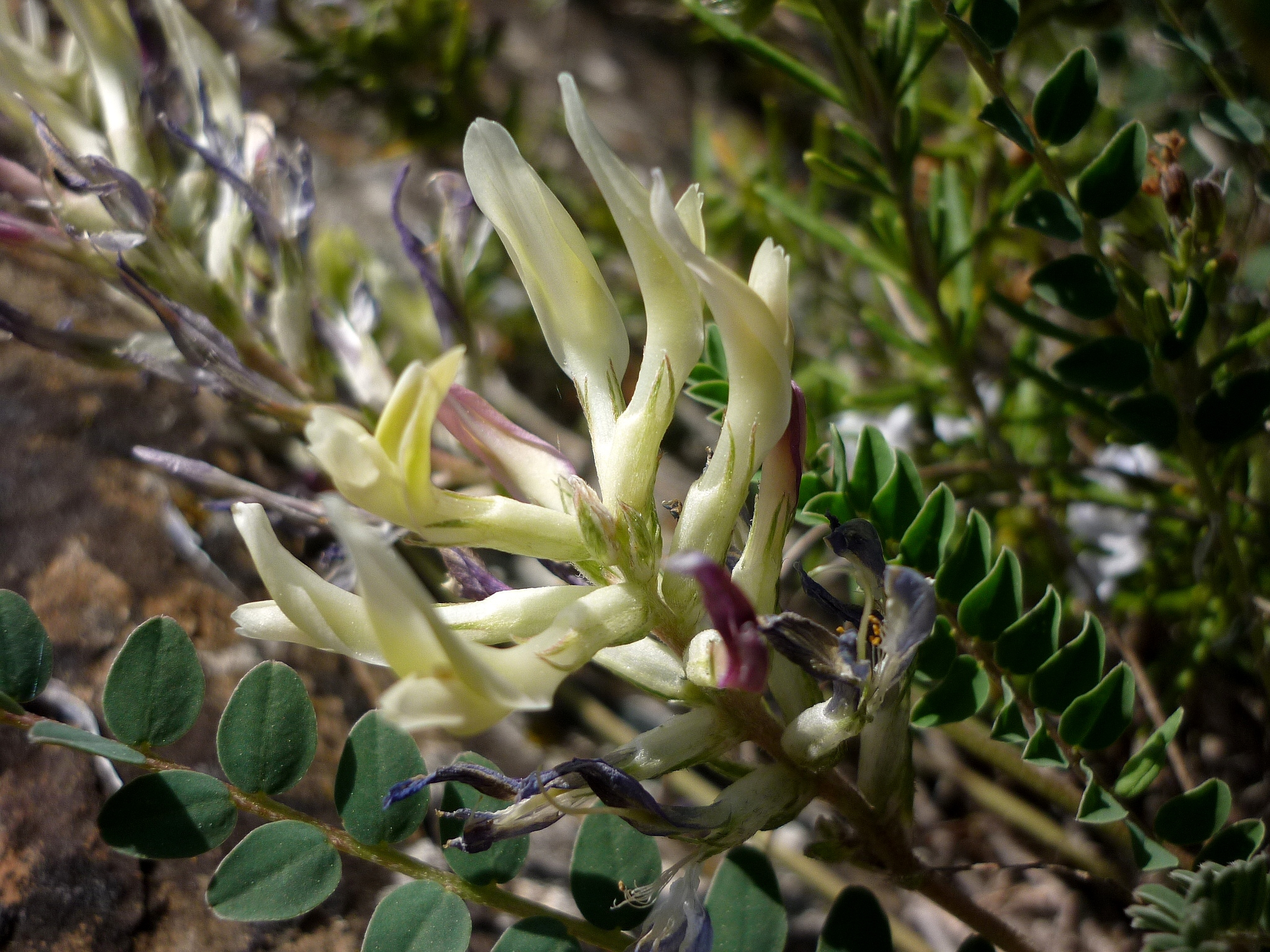 Astragalus monspessulanus. In Torà (Segarra-Catalunya). To 445 m. altitude